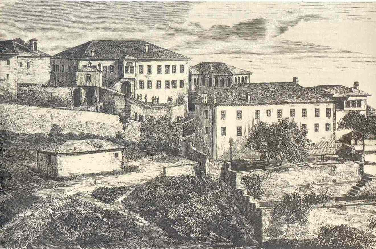 The Zographeion college facilities (1881), in Qestorati (modern south Albania)